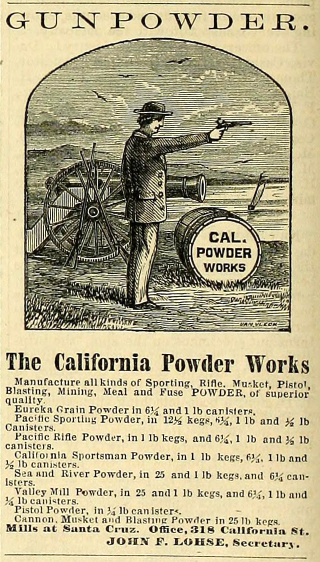 Advertisement for the California Powder Works, a major gunpowder and blasting powder manufacturer in Santa Cruz County, California, during the 19th century. (image cropped and lightened)